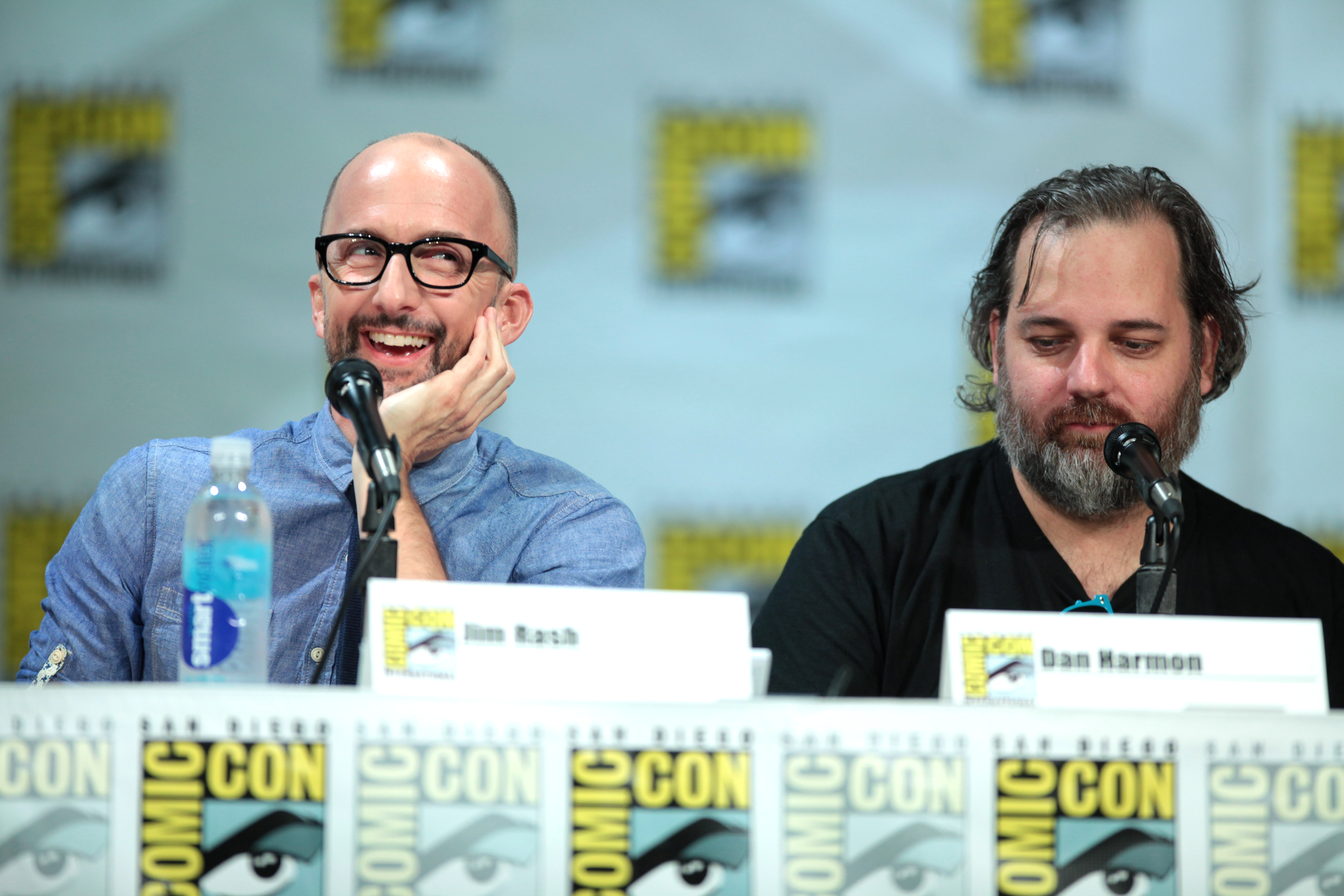 Jim Rash speaking at the 2014 San Diego Comic Con International, for "Community", at the San Diego Convention Center in San Diego, California.